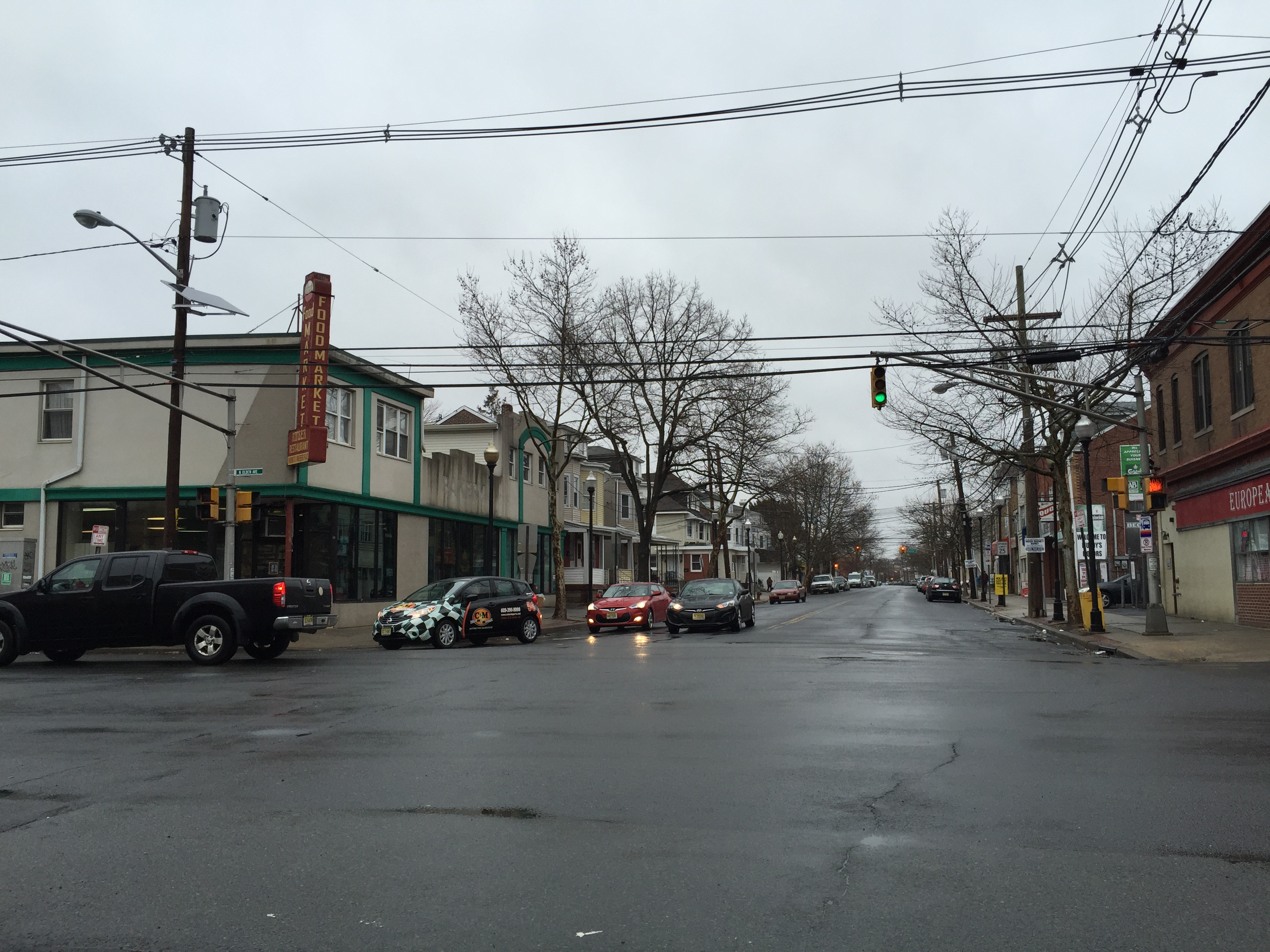 View north along Brunswick Avenue (U.S. Route 206) at the intersection with Olden Avenue (Mercer County Route 622) in the Top Road section of Trenton, New Jersey